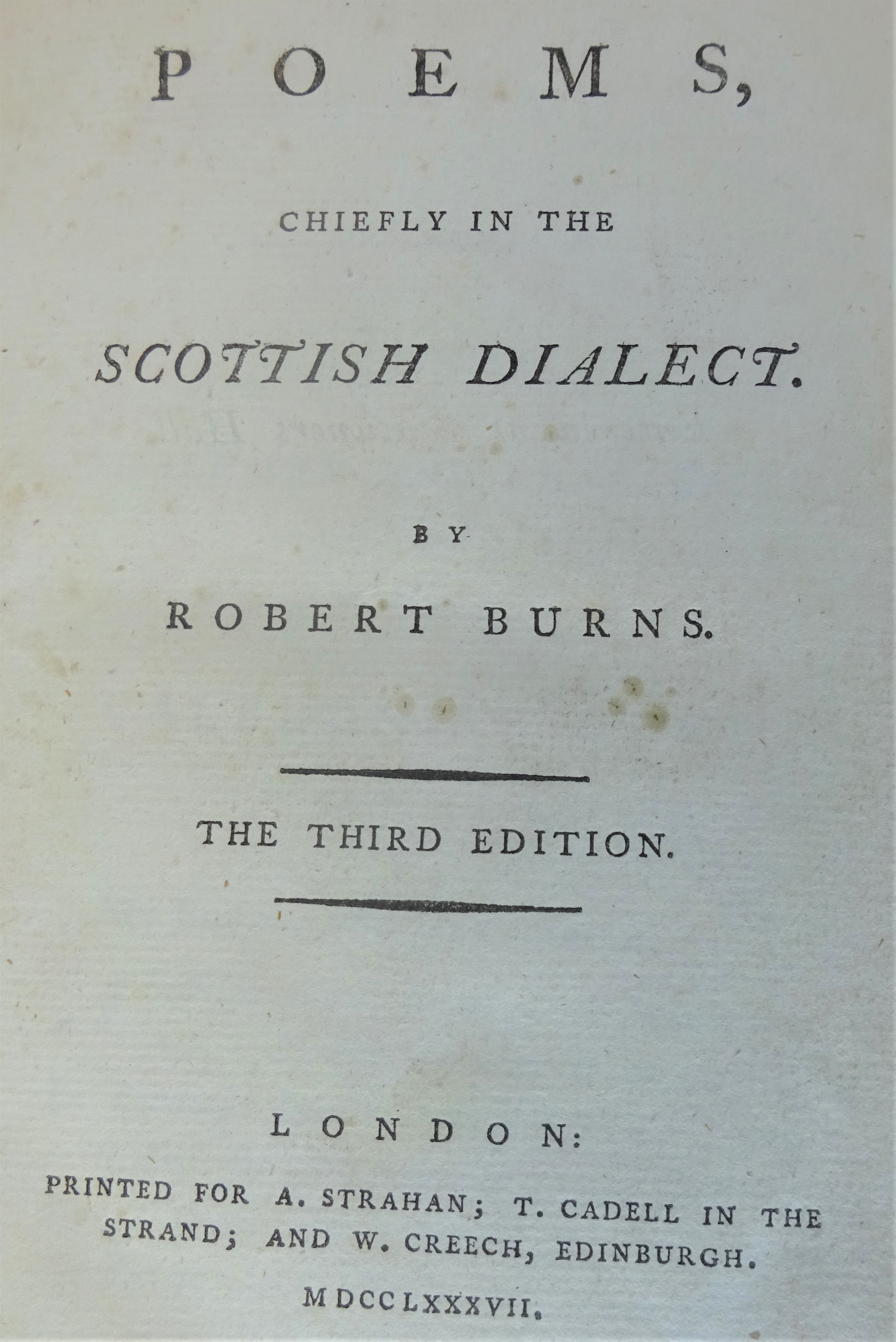 The Title Page of the 1787 'Third' or 'London Edition' of the 'Poems' of Robert Burns.